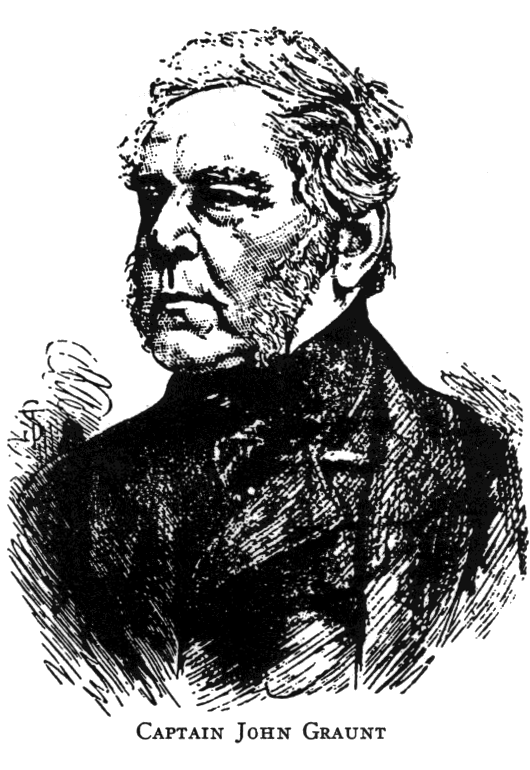 John Graunt (1623-1687)